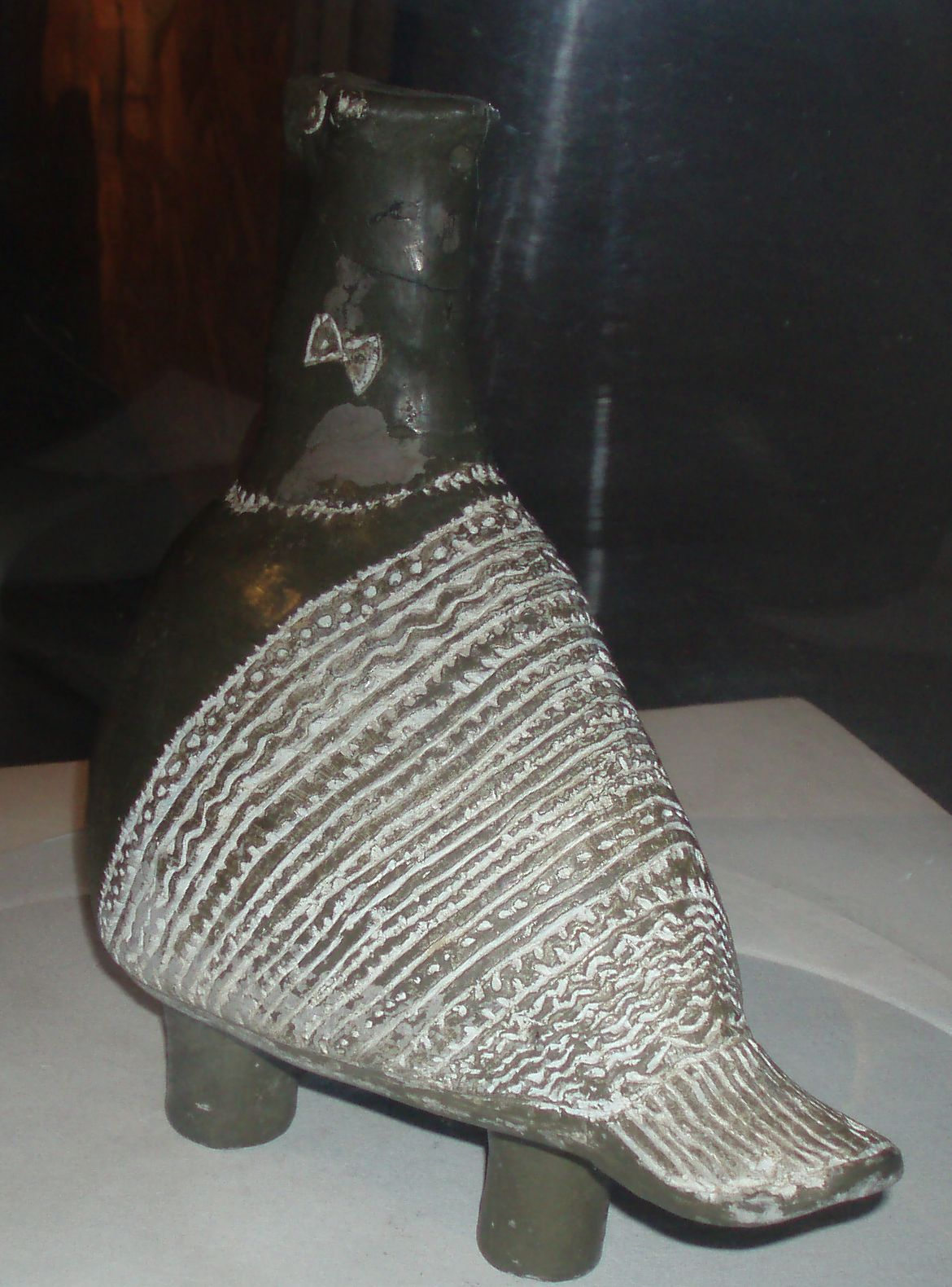 vucedolska golubica